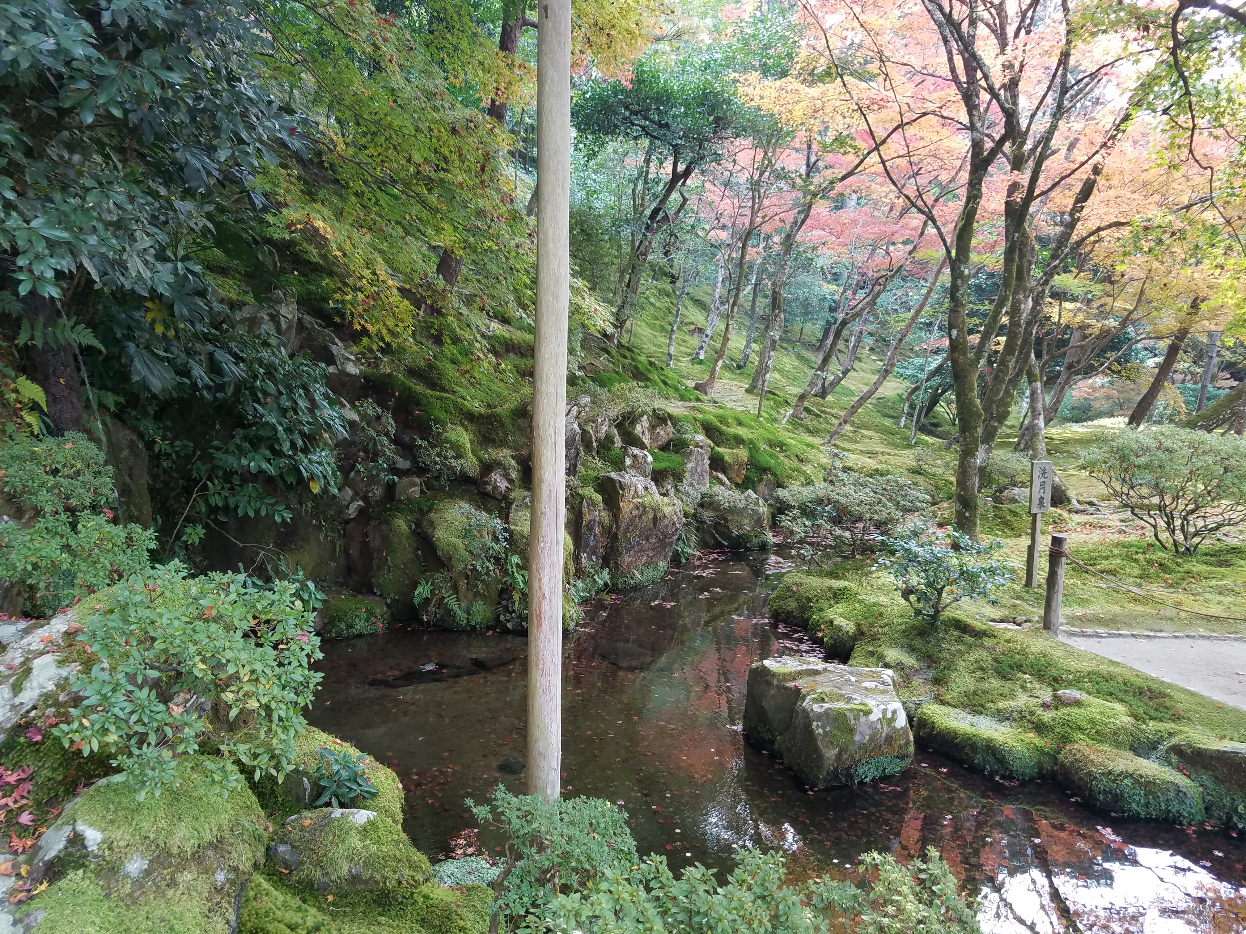 Fault scarp in Ginkaku-ji